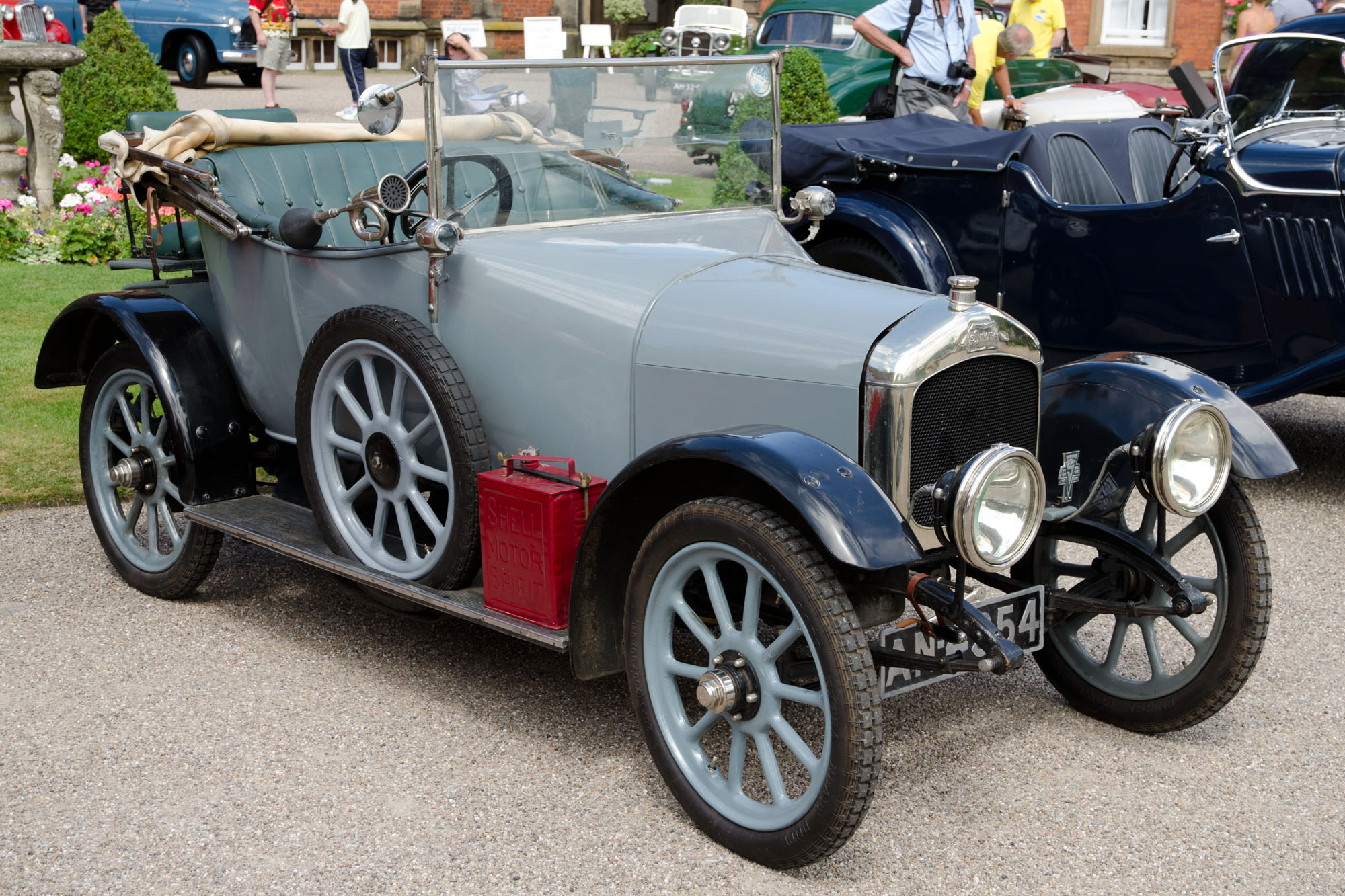 1919 Singer Ten (DVLA) manufactured 1919, 1000 cc Capesthorne Hall Classic Car Show 27/07/2014